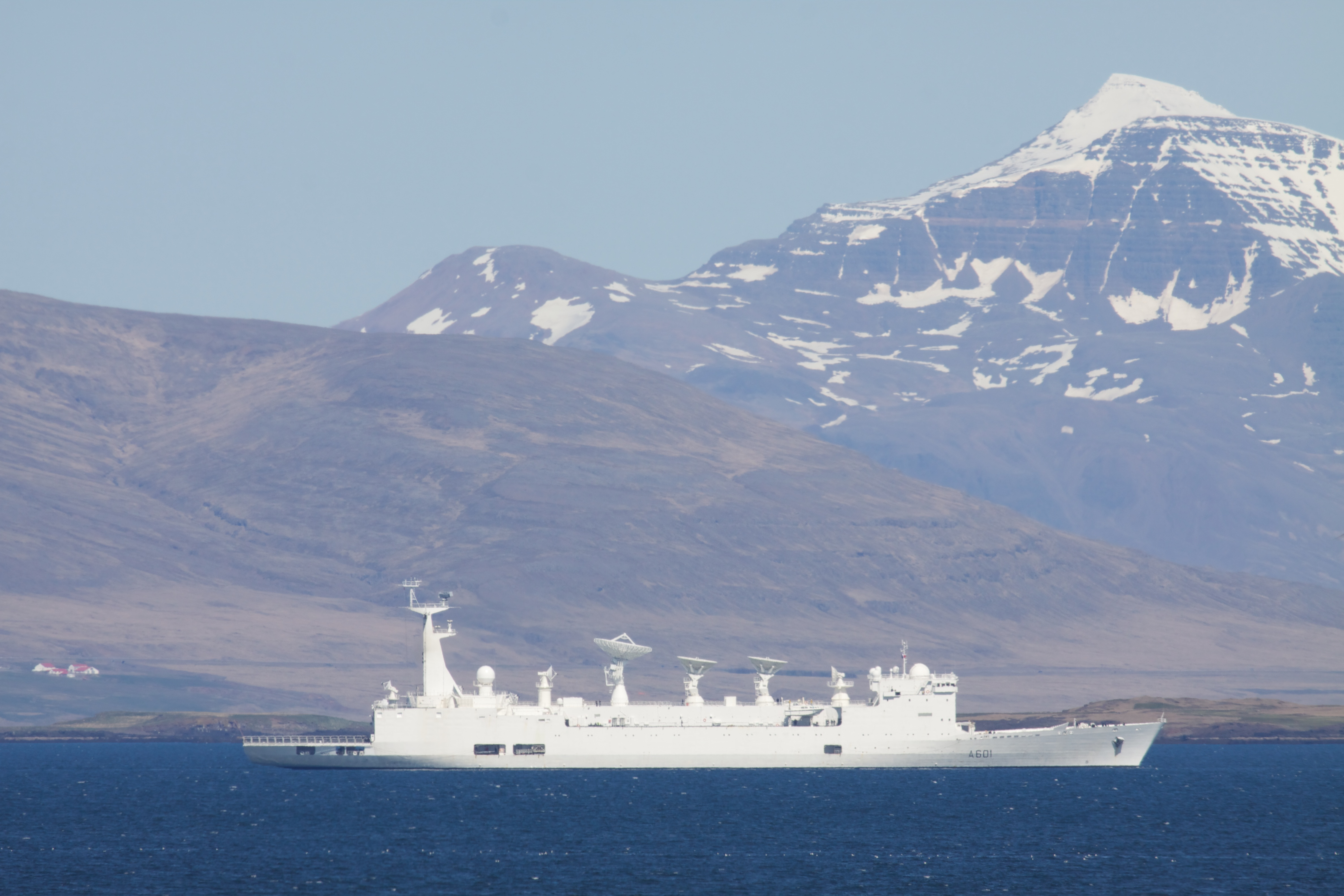 French Navy. FS Monge (A601). Missile tracking ship